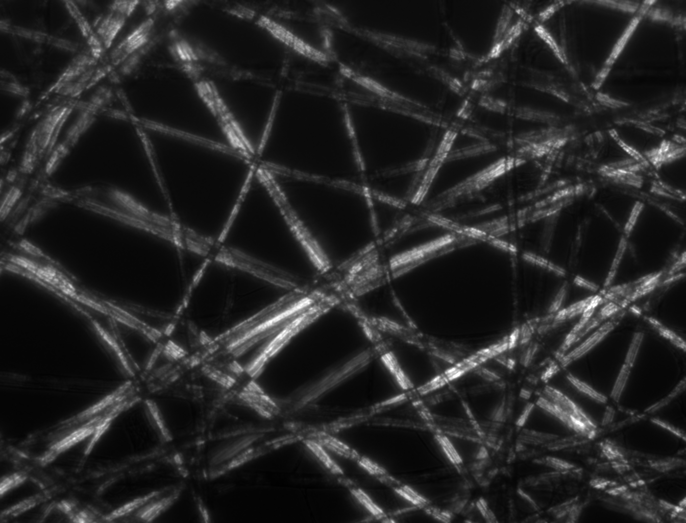 Micrograph of Whatman lens tissue paper. Cross-polarised illumination. 10x magnification, 1.559 μm/px.